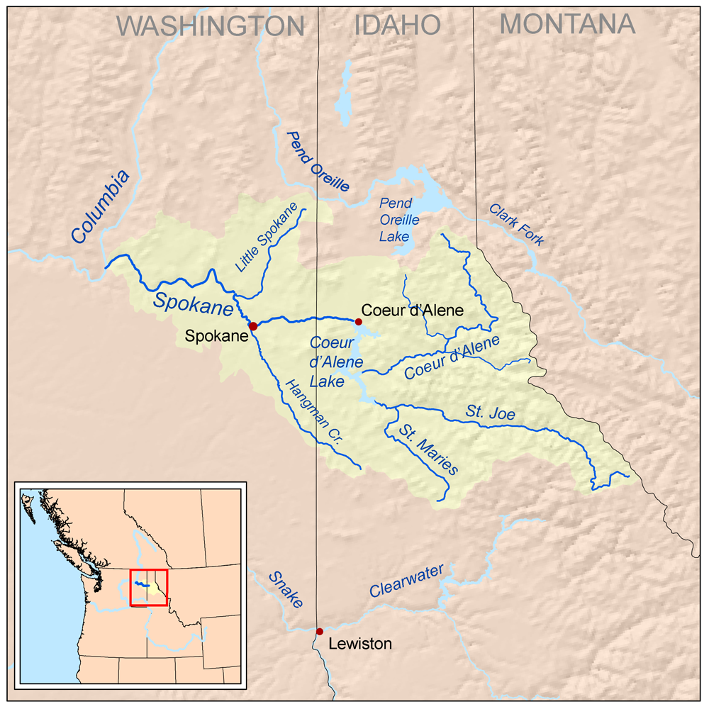 Map of the Spokane River watershed — Western United States.